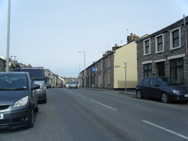 Whalley Road with Park Street on the right.